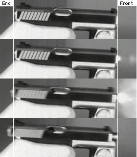 H&K P7 Slide retraction distance by Firing time line.